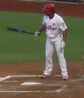 Ben Revere digs into the batters' box in a game on August 22, 2014